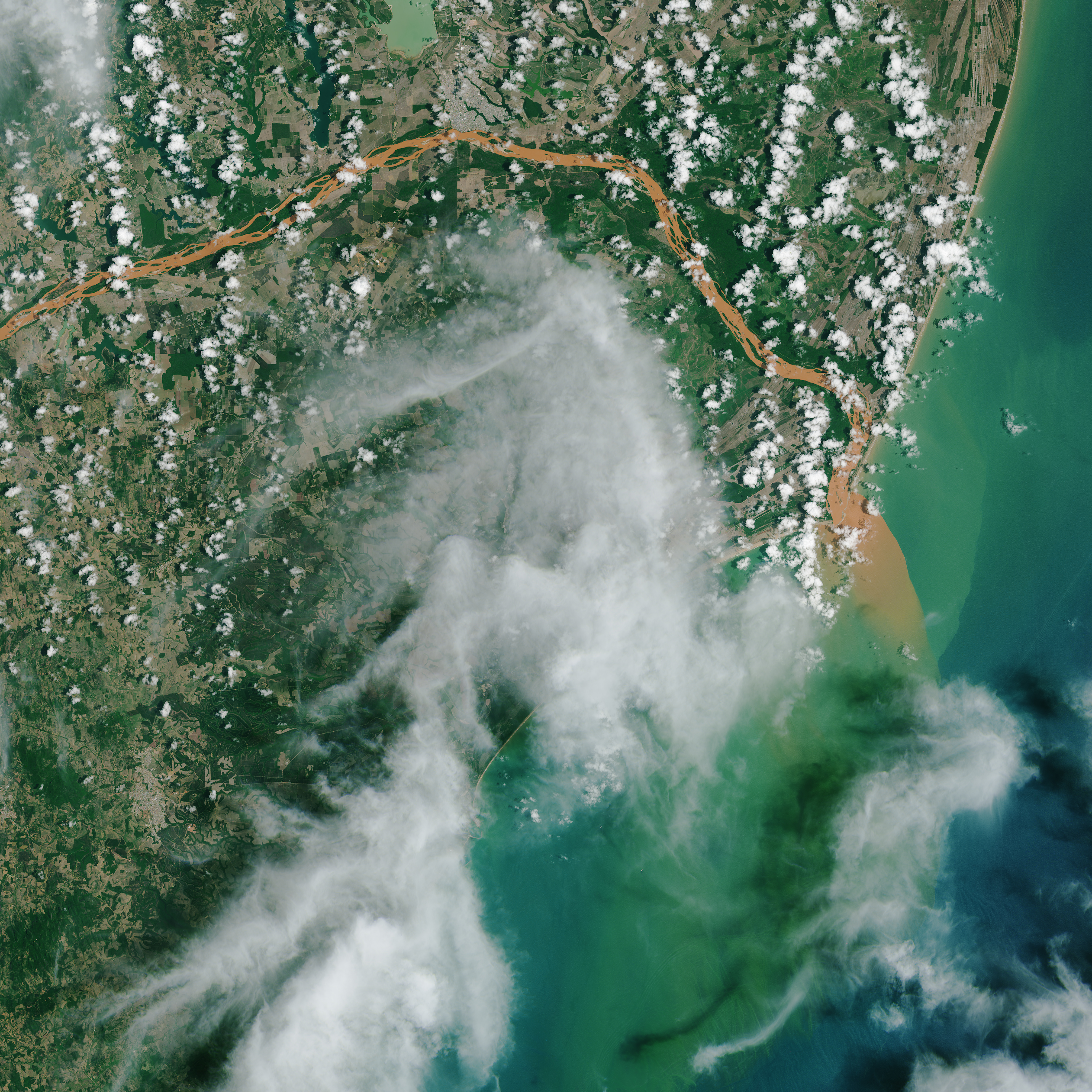 Almost two weeks after the Bento Rodrigues dam disaster, the iron waste reached the Atlantic Ocean waters, configuring the worst environmental disaster in Brazil's history.